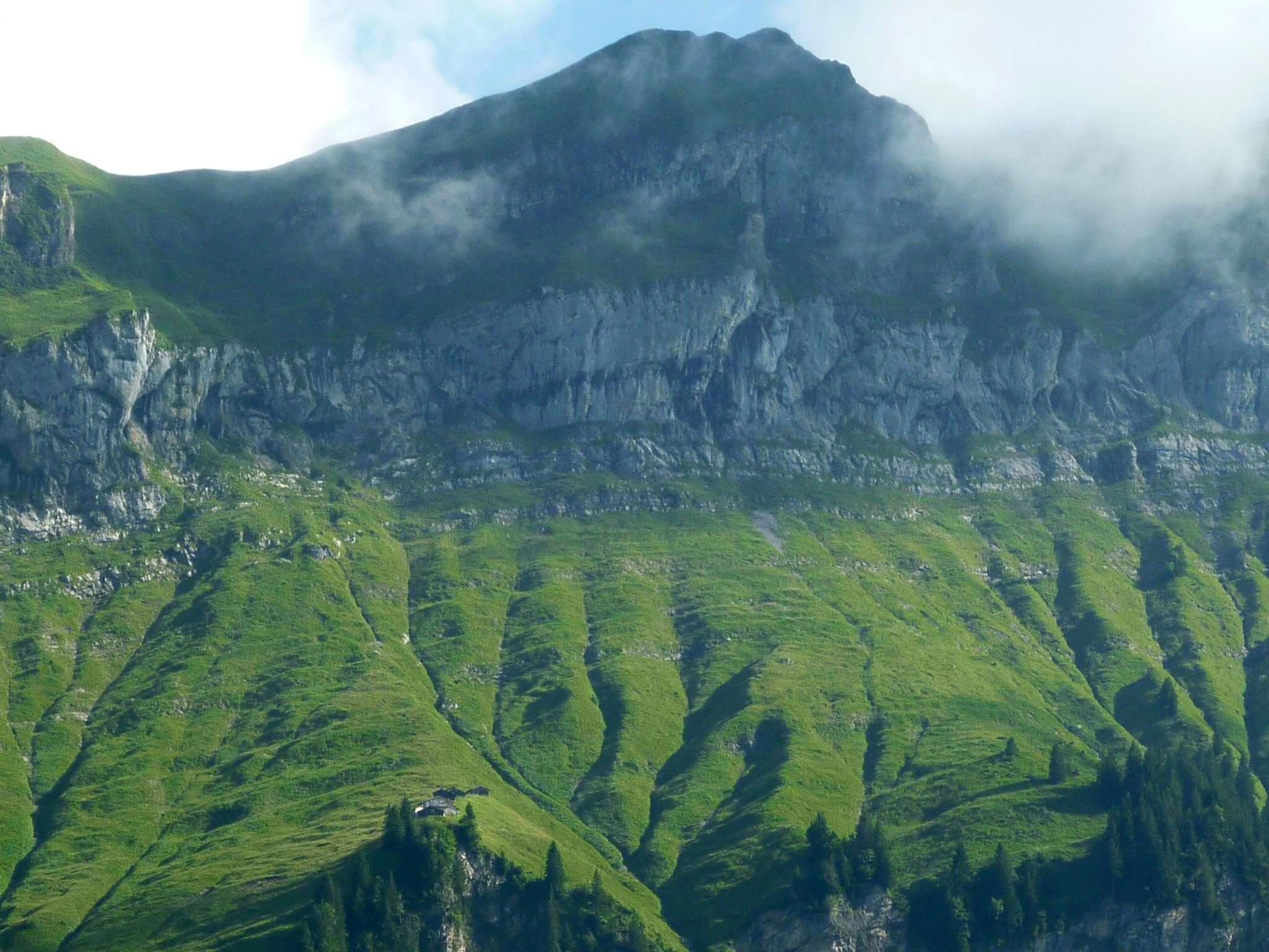 Muotatal valley SZ, Switzerland